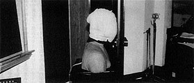 Zucarelli's Ringo